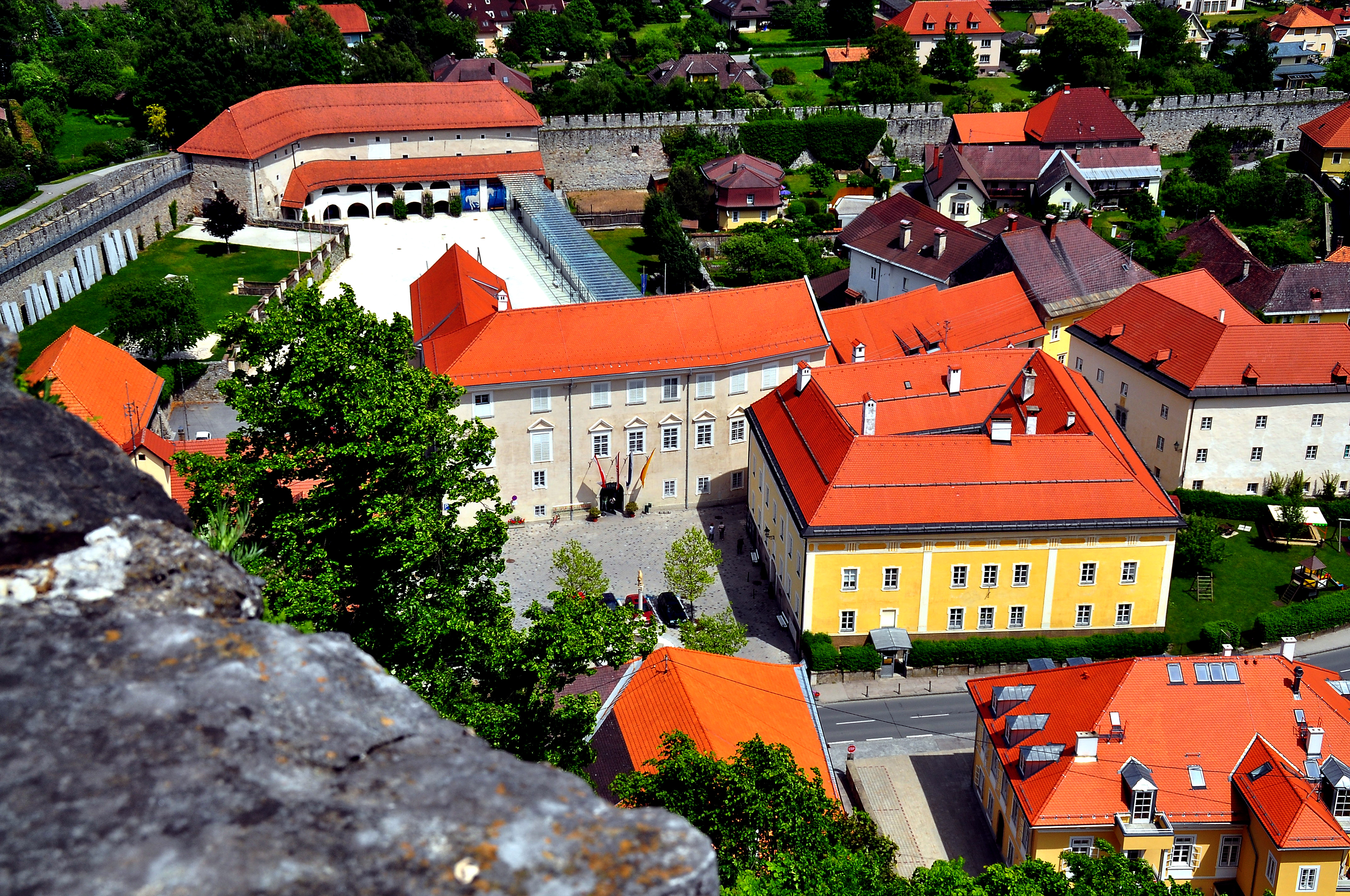 View from Petersberg at the Fuerstenhof and the medieval granary on Fuerstenhofplatz #3, municipality Friesach, district Sankt Veit an der Glan, Carinthia, Austria, EU